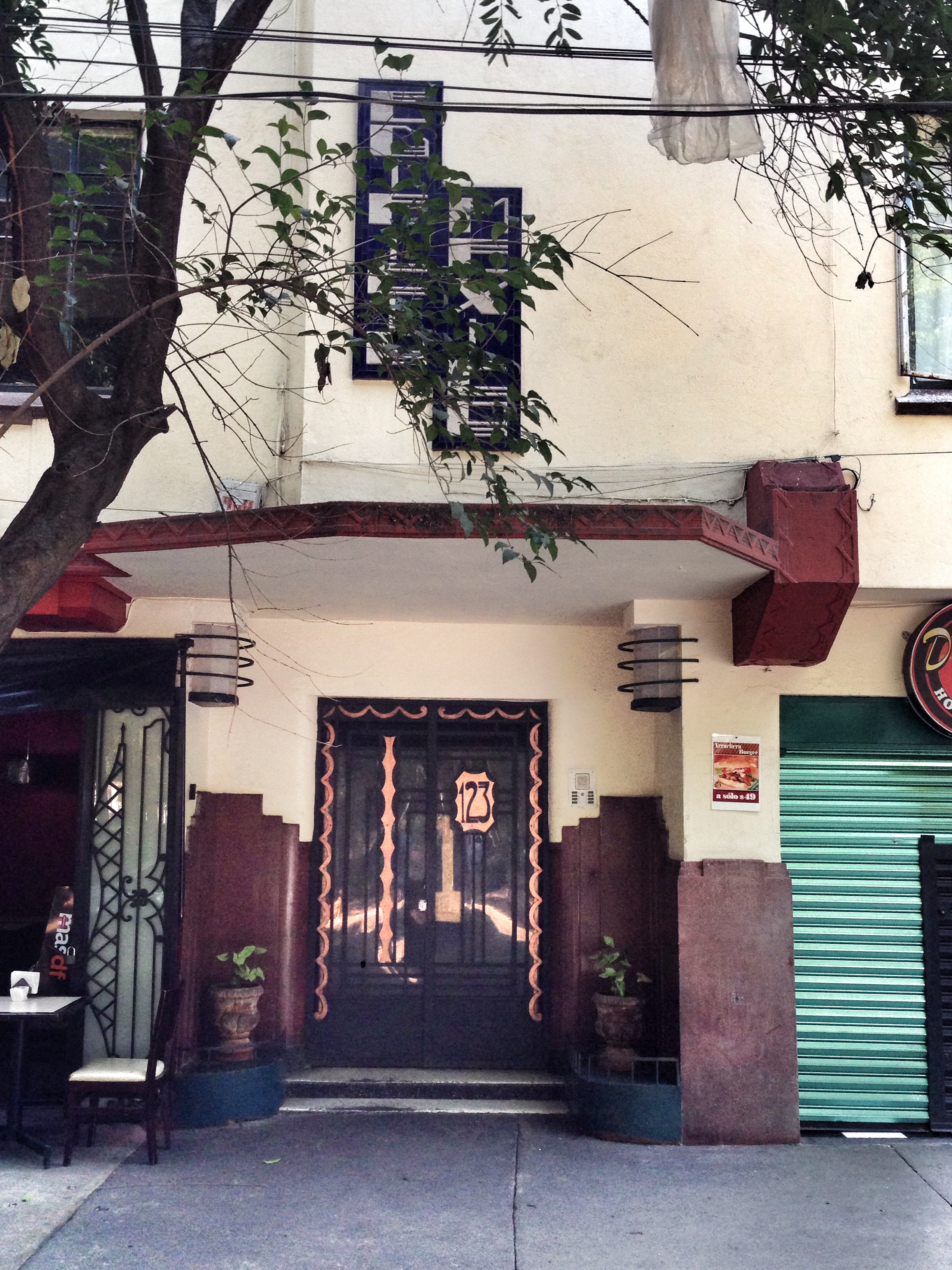 Edificio México (arch. Francisco J. Serrano), colonia Hipódromo, Condesa, Mexico City